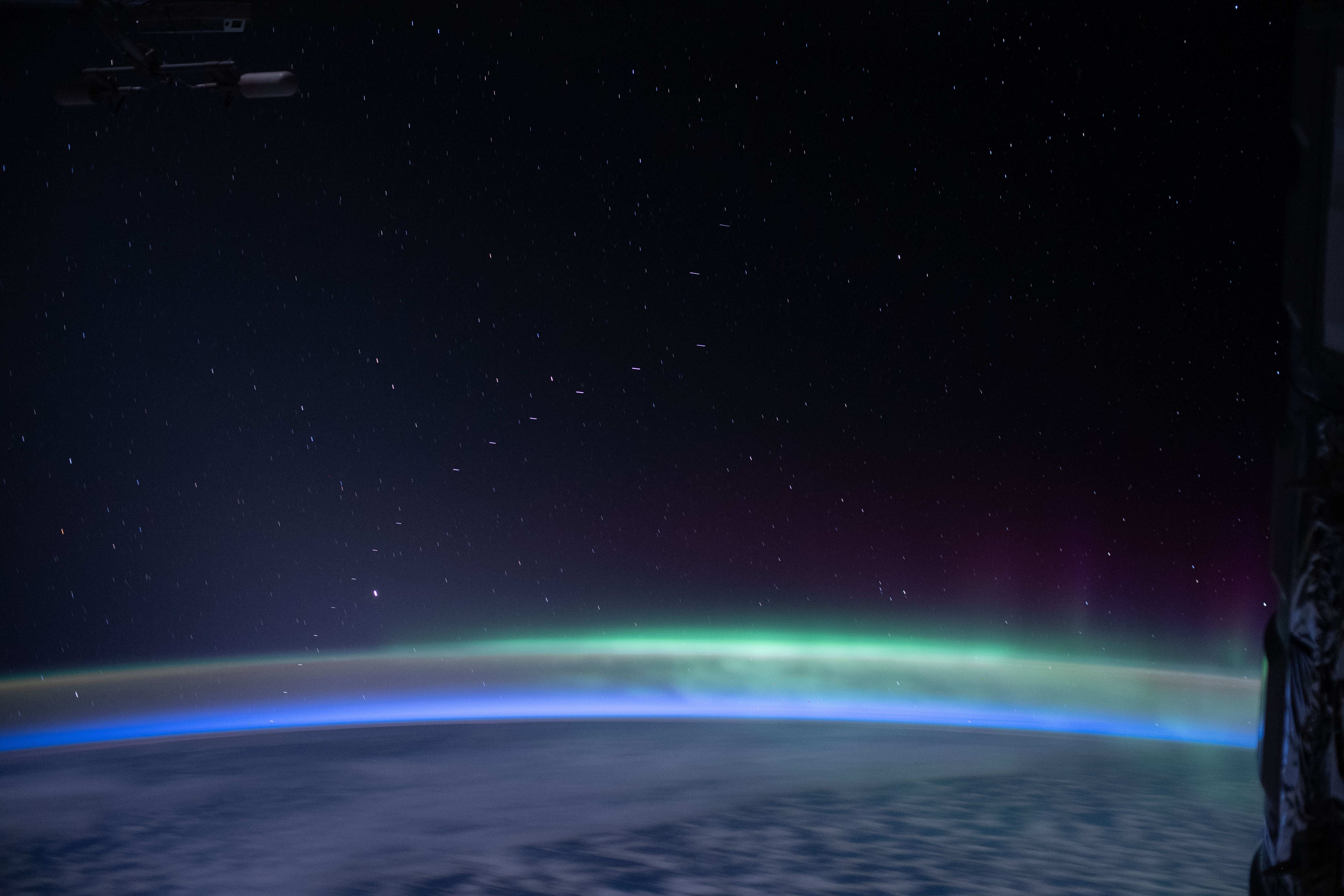 Earth as seen from the ISS. You can spot a Starlink satellite train in the background.